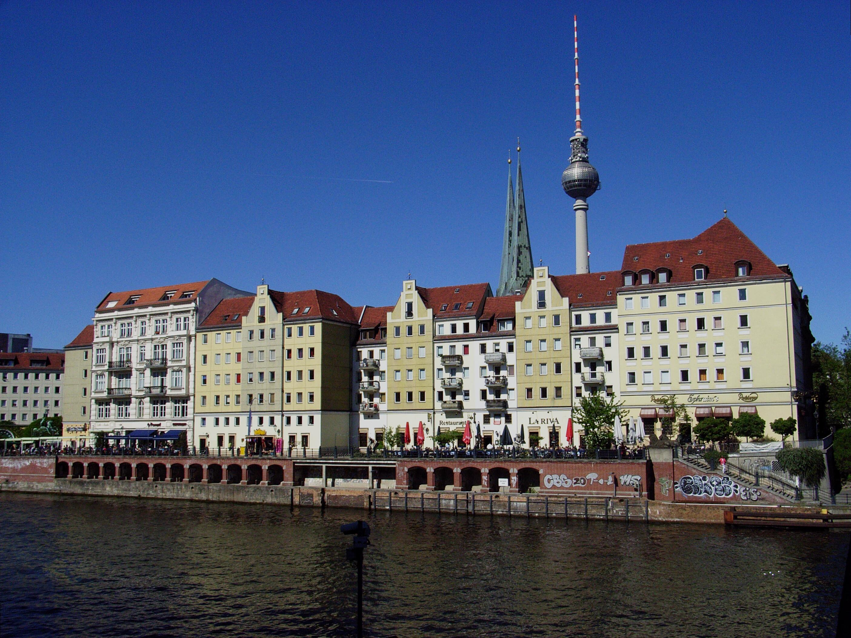 This picture shows the Nikolaiviertel ("St. Nicholas Quarter") from the river Spree. Visible at the center are the top of St. Nicholas Church and the Fernsehturm ("TV tower").